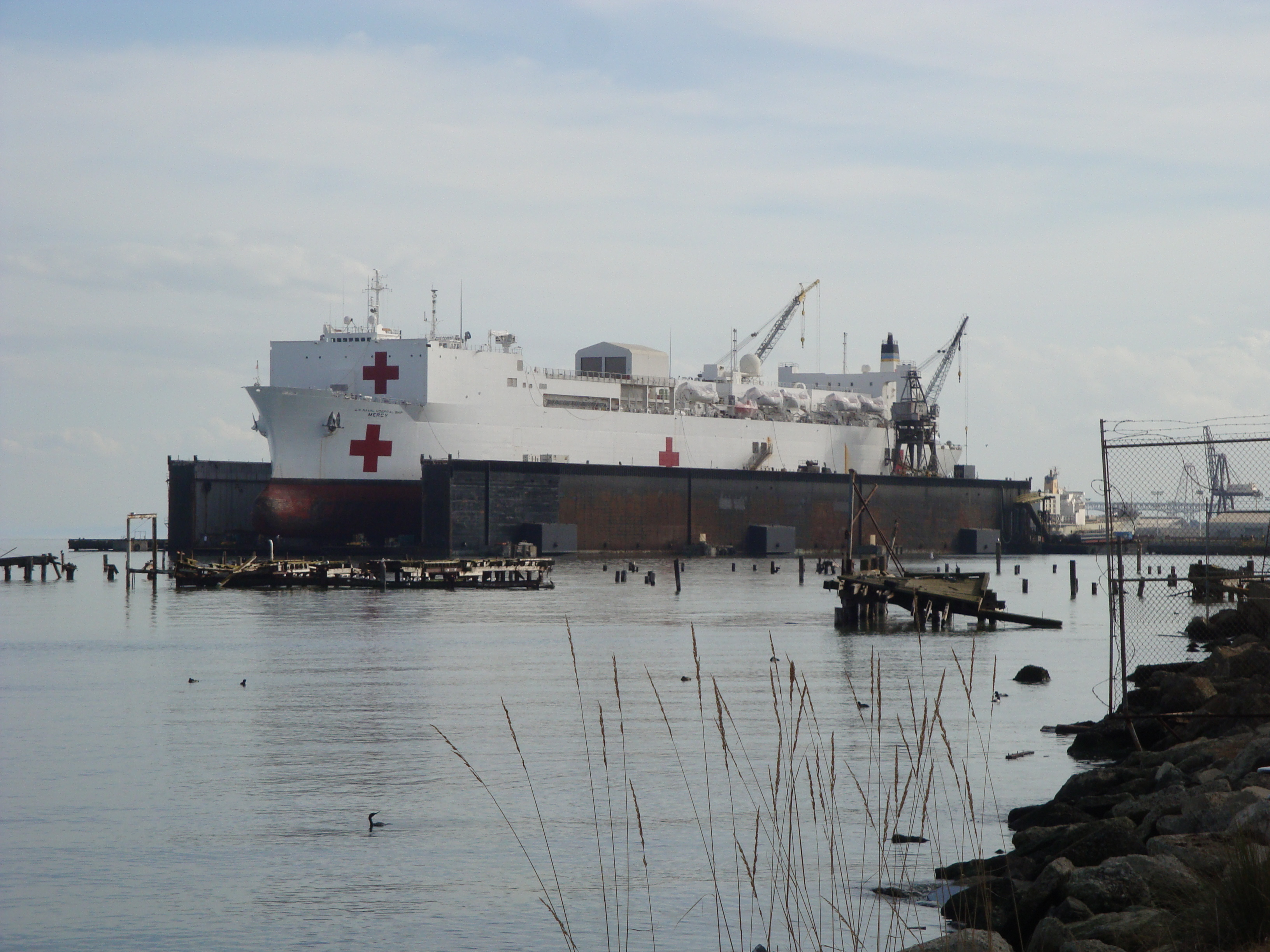 USNS Mercy (T-AH-19) in dry dock at Pier 70, San Francisco, CA.